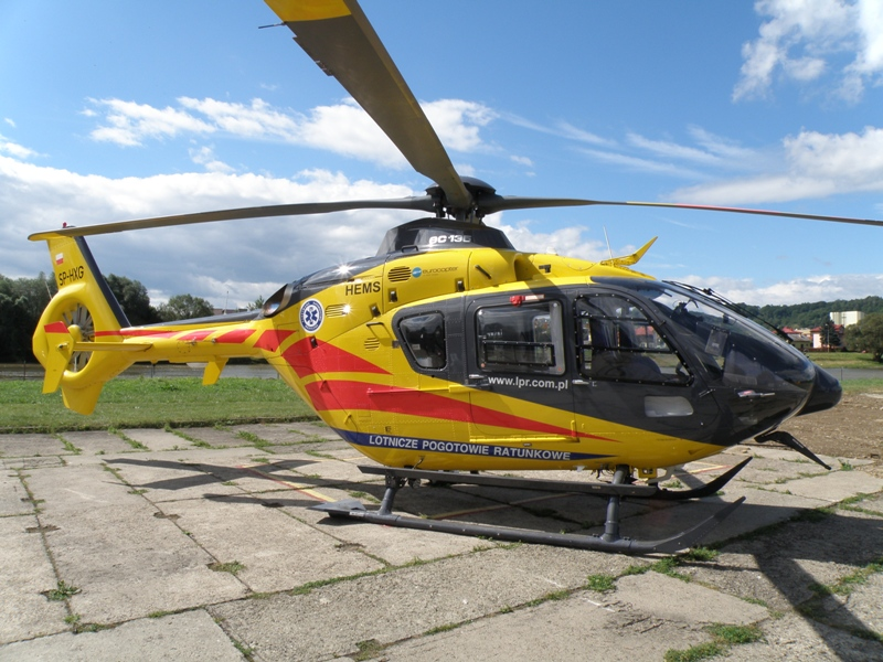 One of 23 new helicopters for Polish Medical Air Rescue in Sanok. Ec-135 p2+.